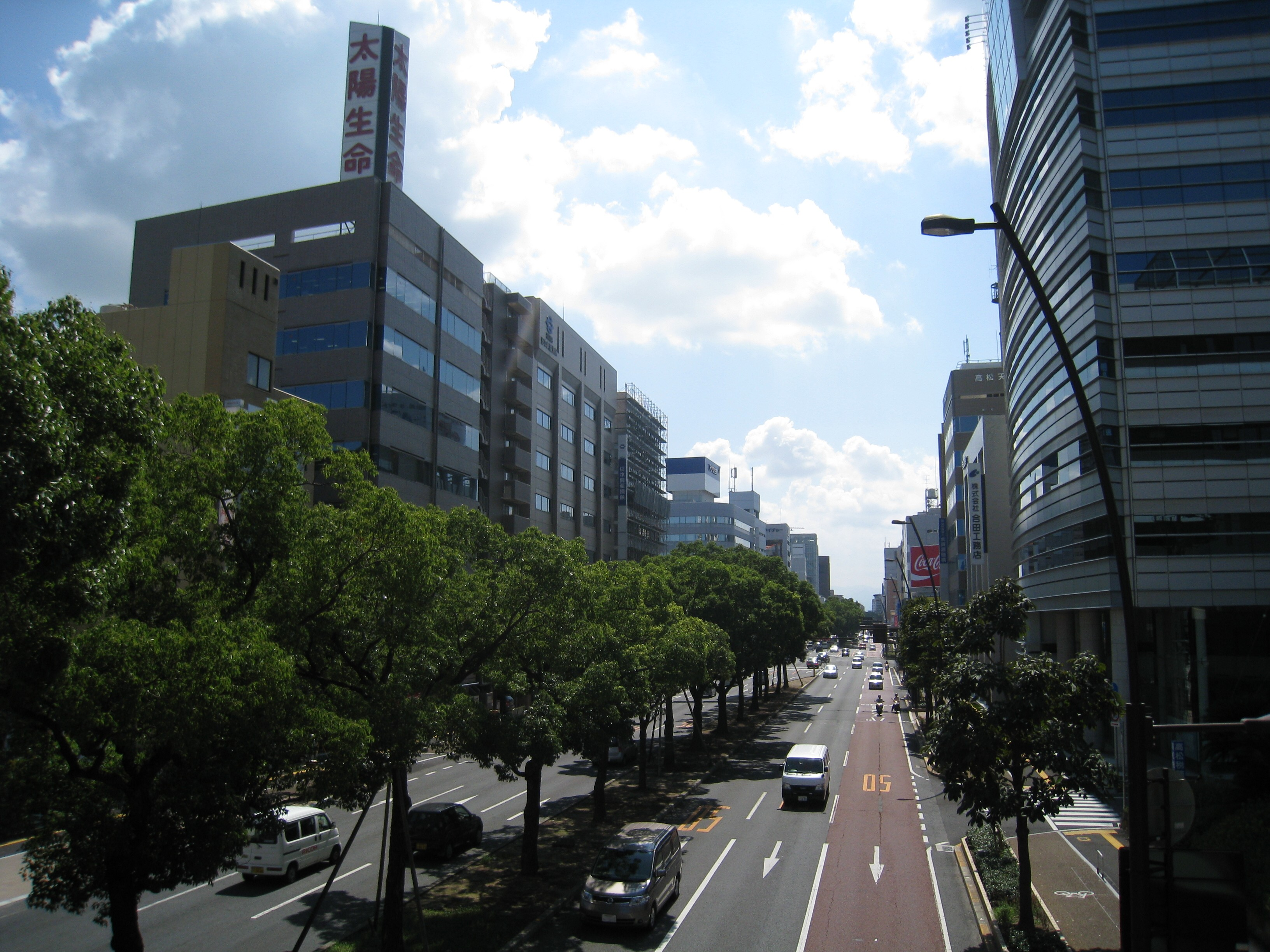 Takamatsu Chuo-dori in Tenjinmae view south